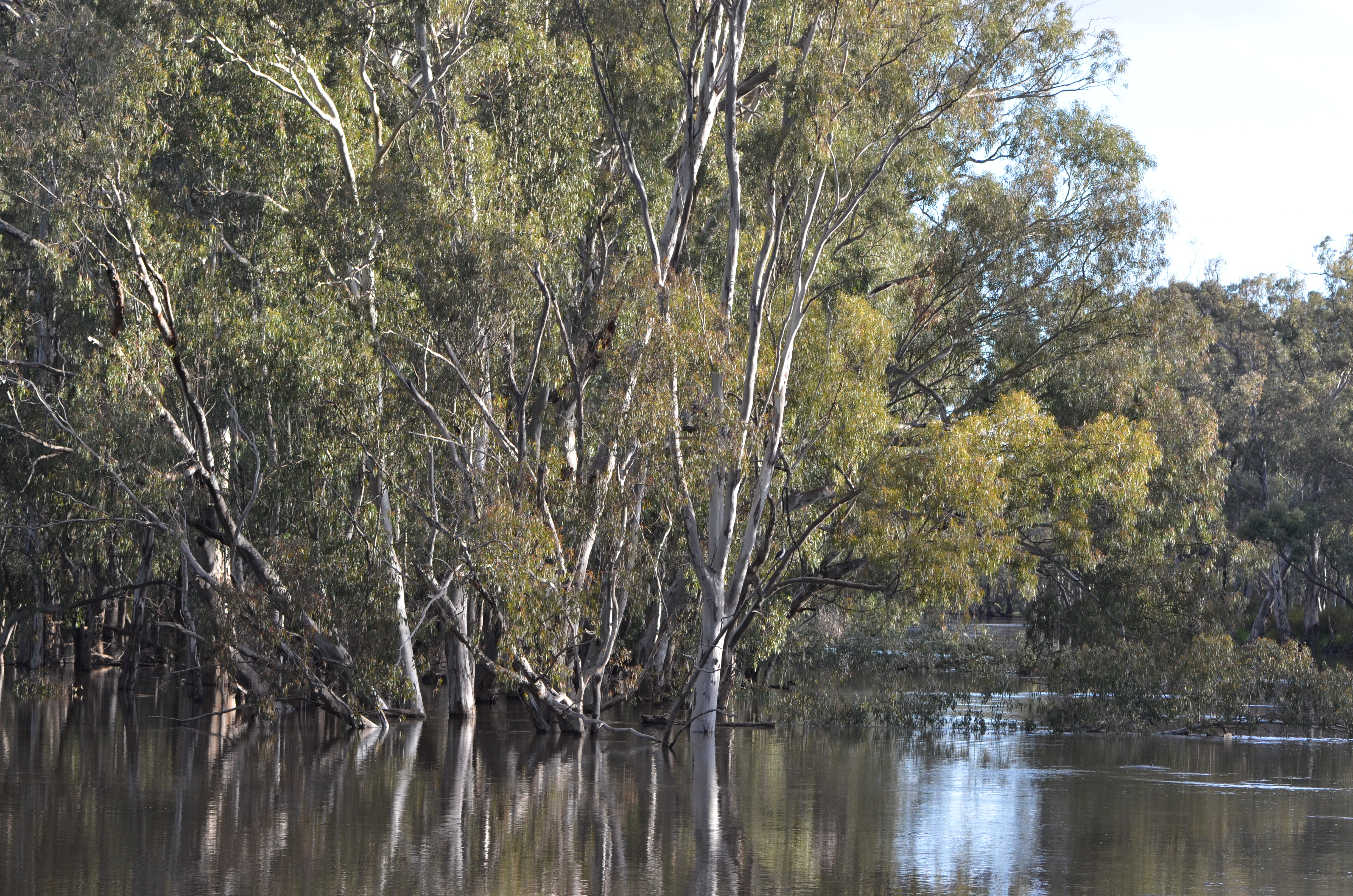 Red River Gums, Eucalyptus camaldulensis, Edward River Crossing, the Riverina, NSW